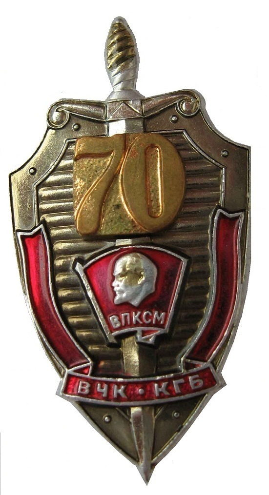 Badge 70 years Komsomolu KGB USSR